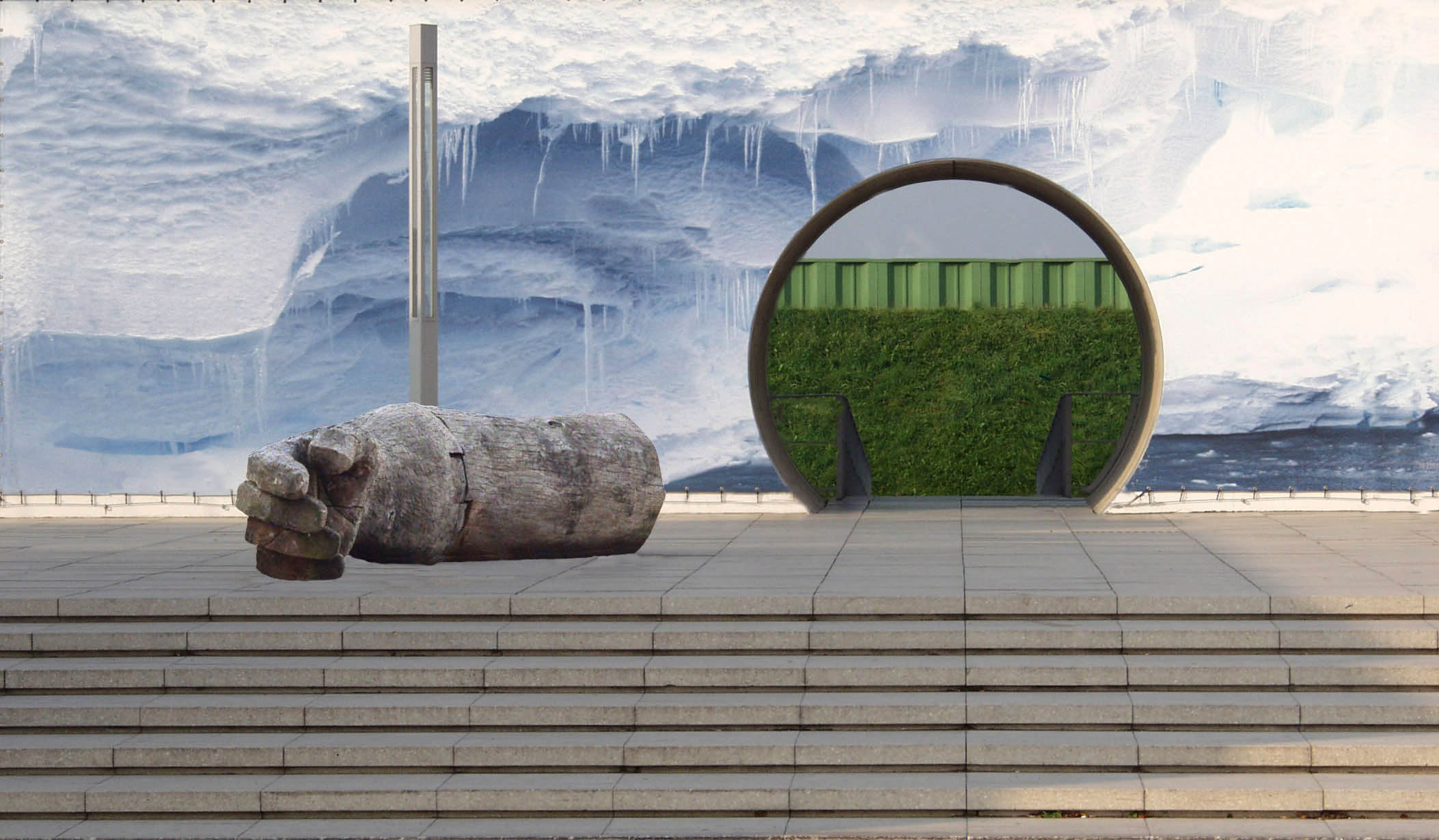 German Shipping Museum Native nameDeutsches SchifffahrtsmuseumParent institutionLeibniz Association LocationHans-Scharoun-Platz 127568 Bremerhaven, BremenGermanyCoordinates53° 32′ 24.36″ N, 8° 34′ 37.2″ E Established5 September 1975Web pageDeutsches SchifffahrtsmuseumAuthority control : Q455354 VIAF: 128715457 ISNI: 0000 0001 2254 1113 LCCN: n50065866 NLA: 35745010 GND: 2008892-9 WorldCat institution QS:P195,Q455354 Art project 'POLARFRONT' with a foto of an ice front off the entrance of the 'Deutsches Schiffahrtsmuseum' The art project 'POLARFRONT' was performed by Birgit Mieding, Johannes Freitag & Ingo Sikorski during the Year of the Geosciences in 2005 in cooperation with the Alfred Wegener Institute for Polar and Marine Research (AWI) and the Deutsches Schiffahrtsmuseum (DSM), both Bremerhaven, Germany. The project consisted of four large posters from the Antarctic mounted to the walls of AWI and DSM and one installed in the river Weser. The wooden arm in the foreground is from artist and sculptor Stephan Balkenhol and not part of the POLARFRONT project.